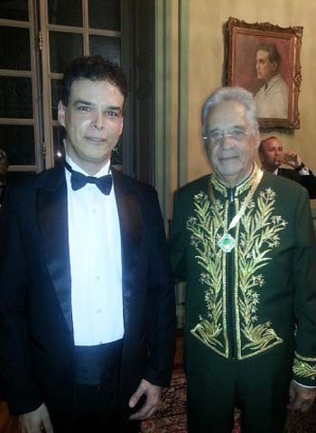 FERNANDO HENRIQUE CARDOSO E MARCELO MORAES CAETANO